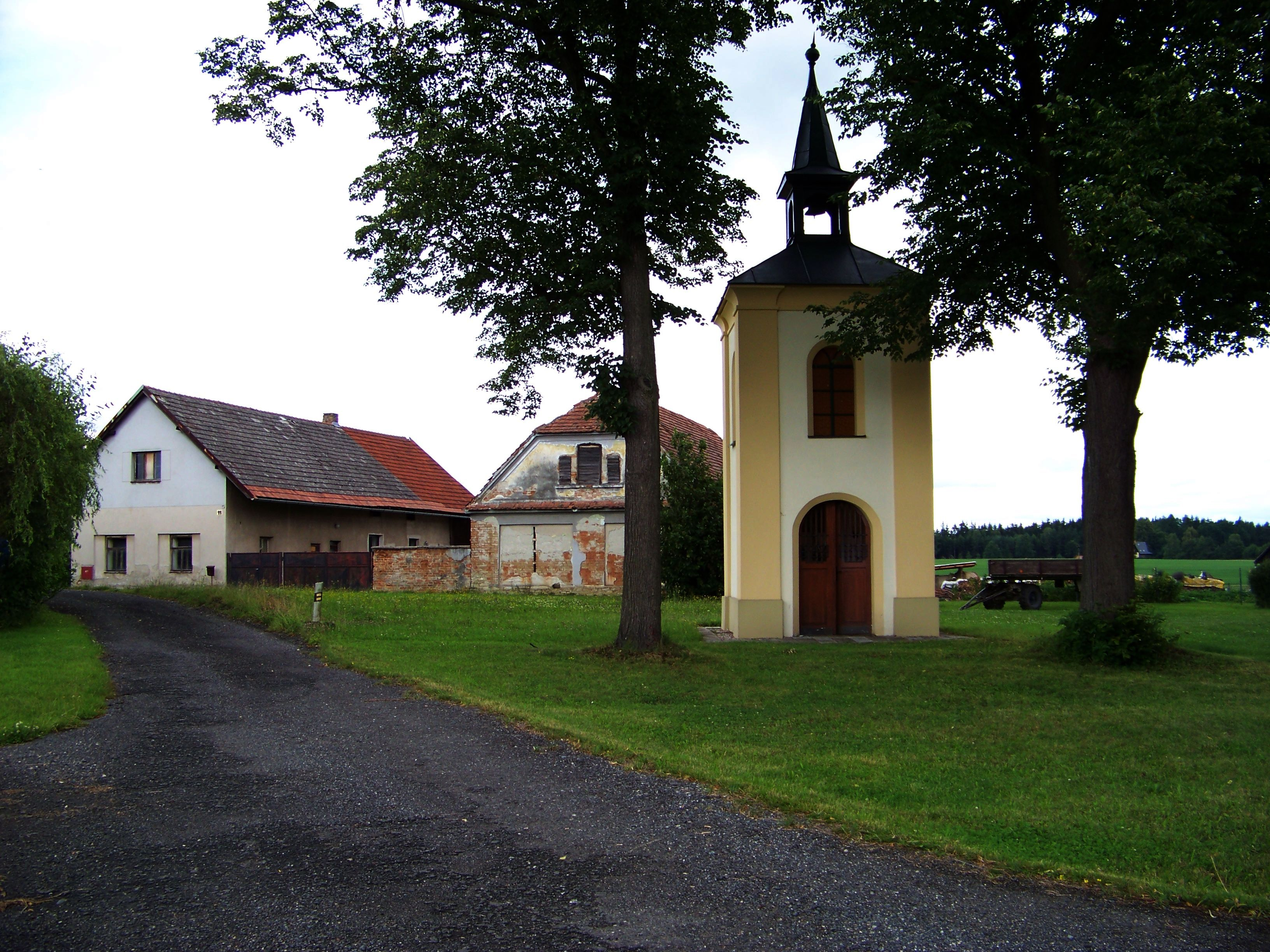 Horní Jelení-Dolní Jelení, Pardubice District, Pardubice Region, the Czech Republic. A chapel. - OpenStreetMap(Info)